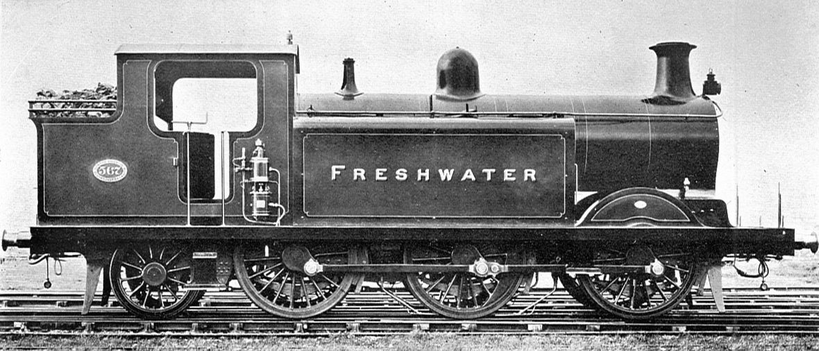 To serve London's Outer Suburbs. Six-coupled Tank for the London, Brighton and South Coast. E5 class 567 Freshwater